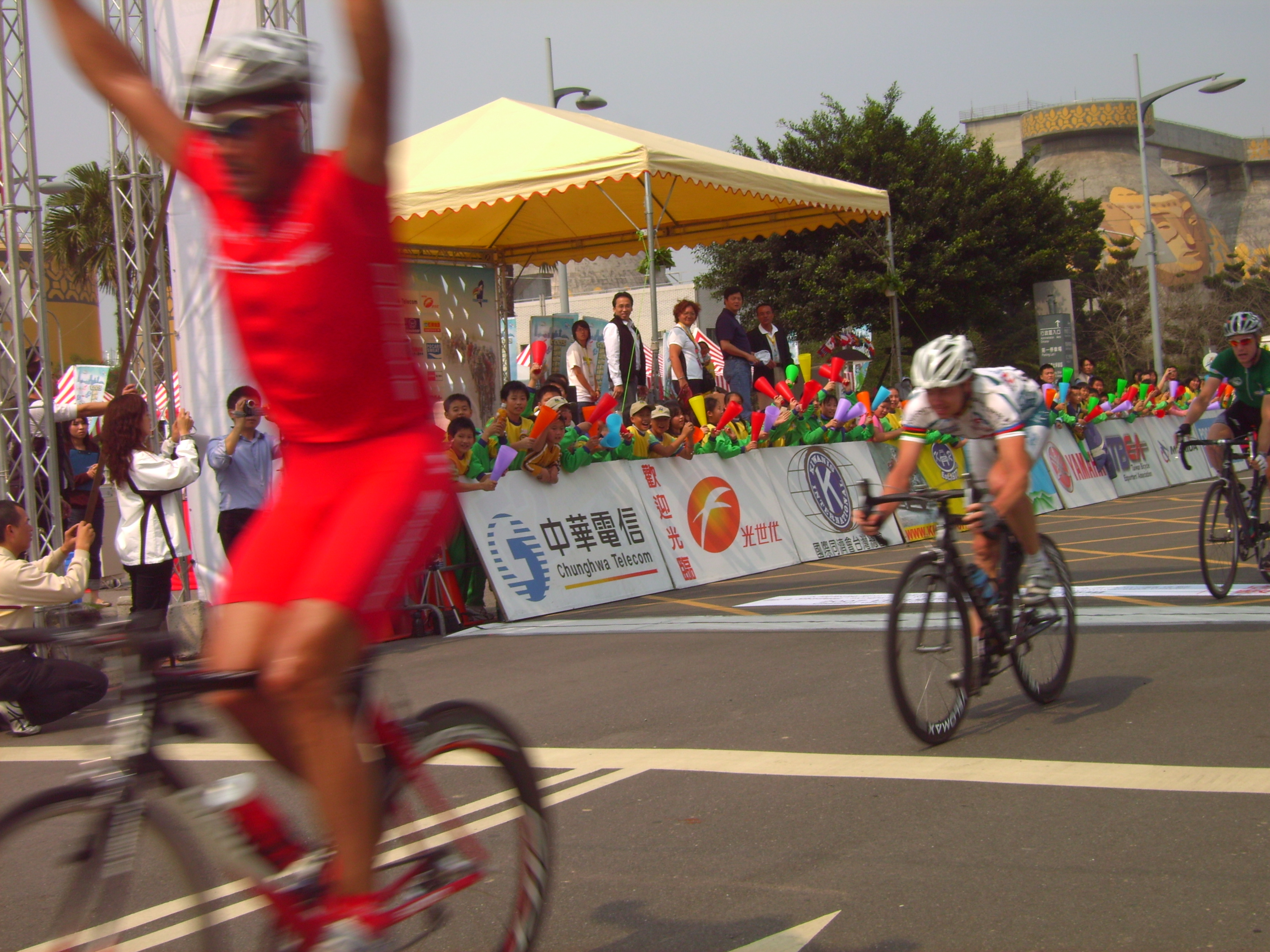 Robert McLachlan (red jersey, raising hands) won 2007 Tour de Taiwan 6th Stage.